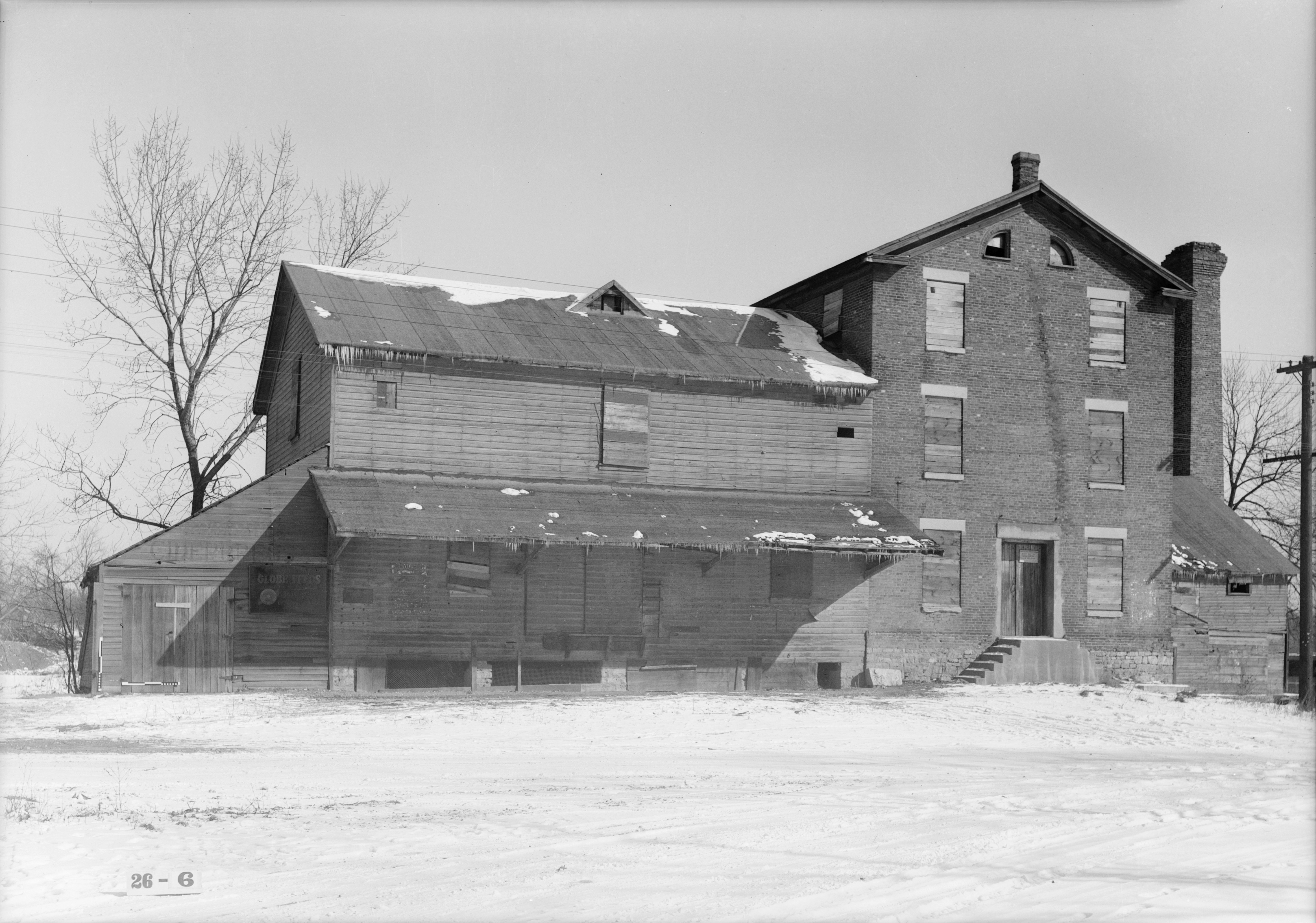 Graue Water Mill, York Road, Fullersburg vicinity (Du Page County, Illinois) - cropped This file comes from the Historic American Buildings Survey (HABS), Historic American Engineering Record (HAER) or Historic American Landscapes Survey (HALS). These are programs of the National Park Service established for the purpose of documenting historic places. Records consist of measured drawings, archival photographs, and written reports. This tag does not indicate the copyright status of the attached work. A normal copyright tag is still required. See Commons:Licensing for more information. This work is in the public domain in the United States because it is a work prepared by an officer or employee of the United States Government as part of that person’s official duties under the terms of Title 17, Chapter 1, Section 105 of the US Code. See Copyright. Note: This only applies to original works of the Federal Government and not to the work of any individual U.S. state, territory, commonwealth, county, municipality, or any other subdivision. This template also does not apply to postage stamp designs published by the United States Postal Service since 1978. (See § 313.6(C)(1) of Compendium of U.S. Copyright Office Practices). It also does not apply to certain US coins; see The US Mint Terms of Use. This file has been identified as being free of known restrictions under copyright law, including all related and neighboring rights. Object location41° 49′ 15″ N, 87° 55′ 45″ W